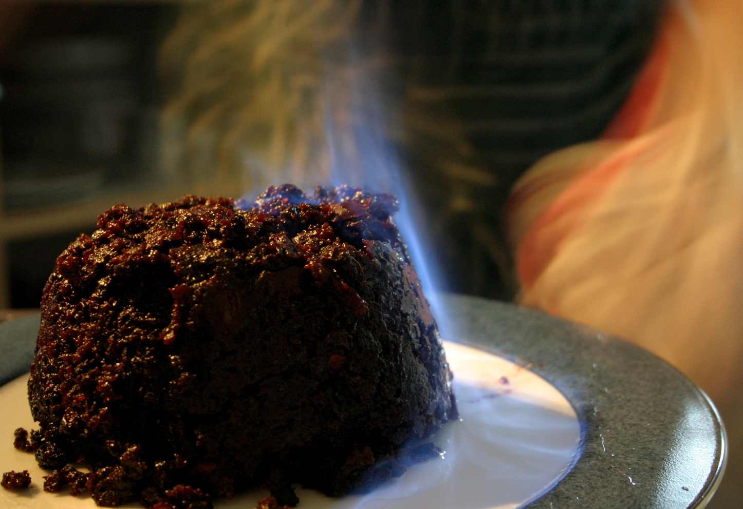 Ah, the pudding. Months in the making. Finally ready to have the brandy poured on, and then thrown to the lions.